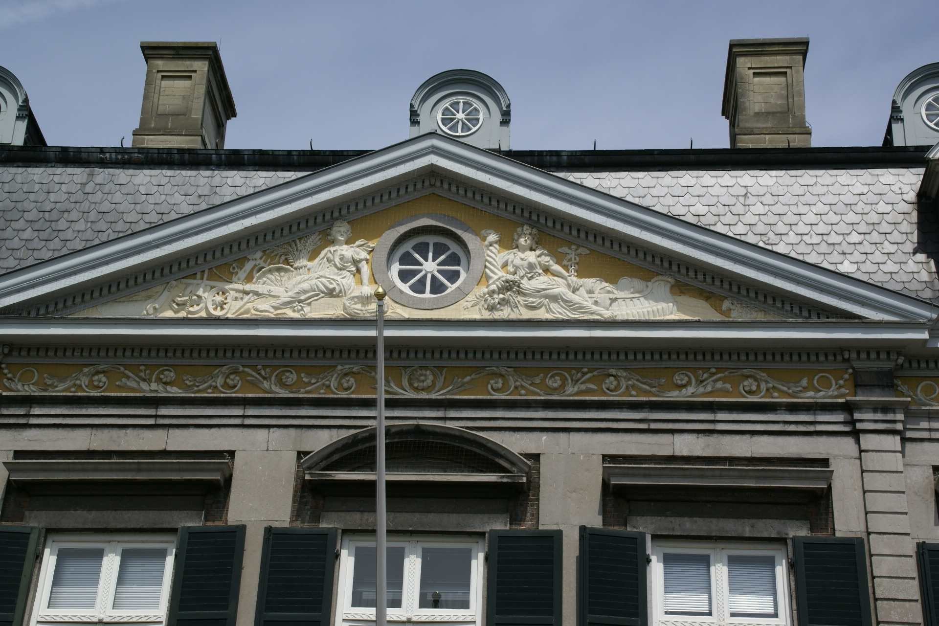 Gable stone of the Theater at the Vrijthof in Maastricht, Netherlands